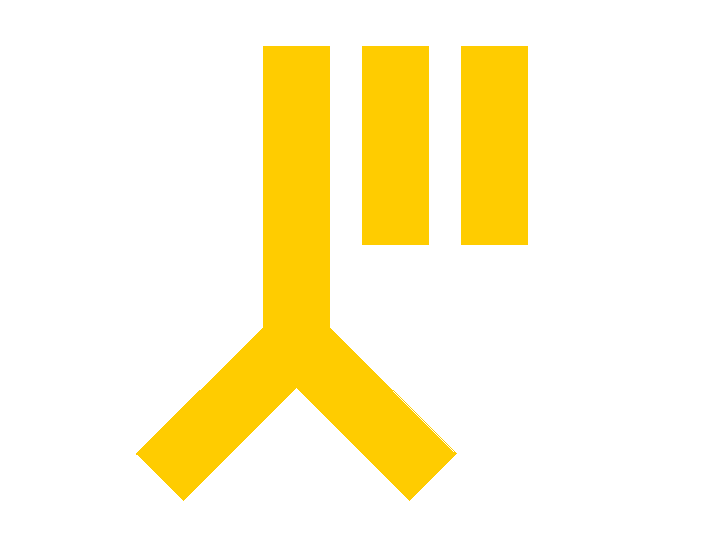 Mark of Ww2 GermanDivision Panzer 3 - 1940-1945